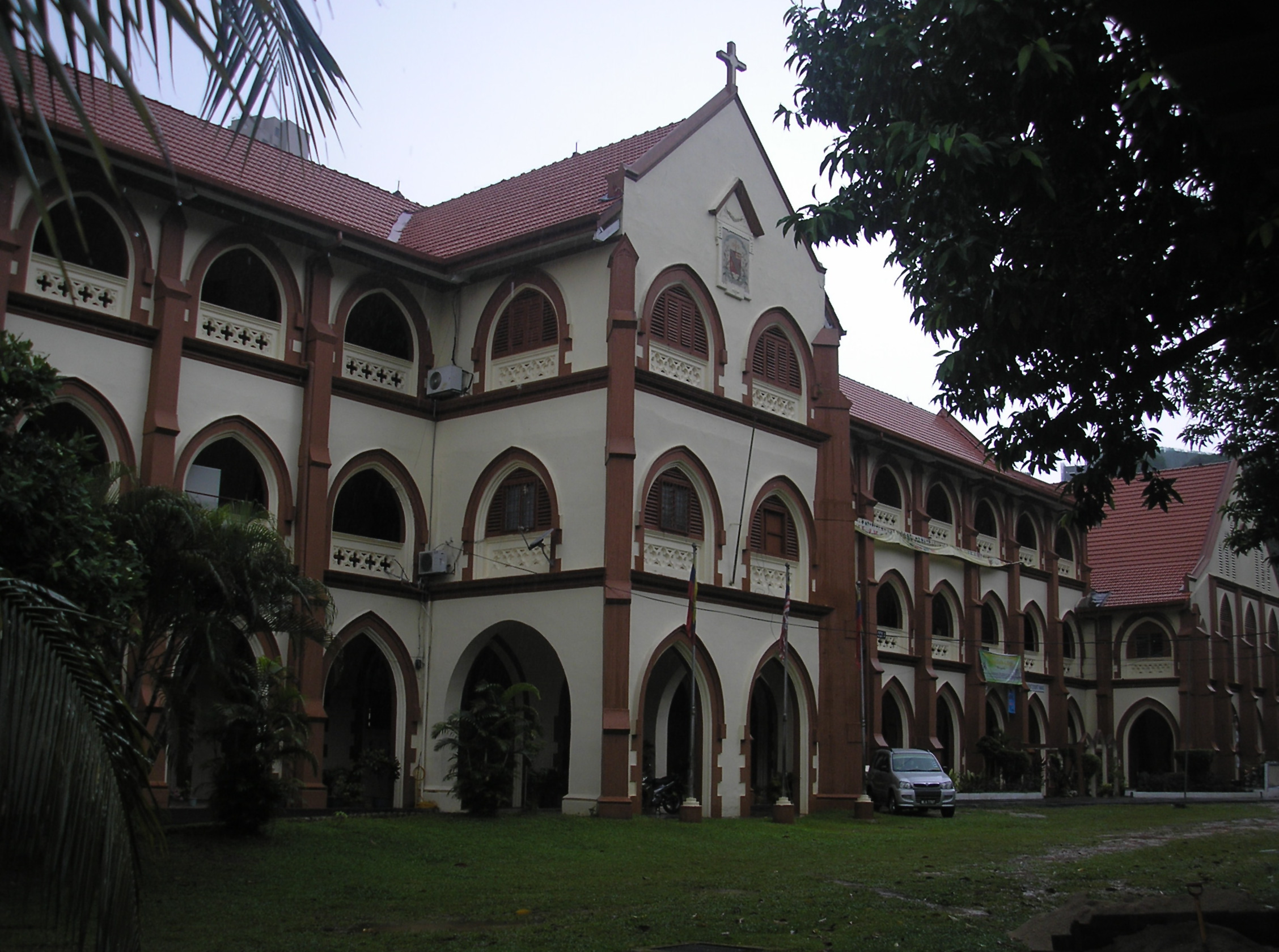 The Primary's branch of the Bukit Nanas Convent at Jalan Bukit Nanas (Bukit Nanas Road), in Bukit Nanas, Golden Triangle, Kuala Lumpur, Malaysia, as seen towards the north.